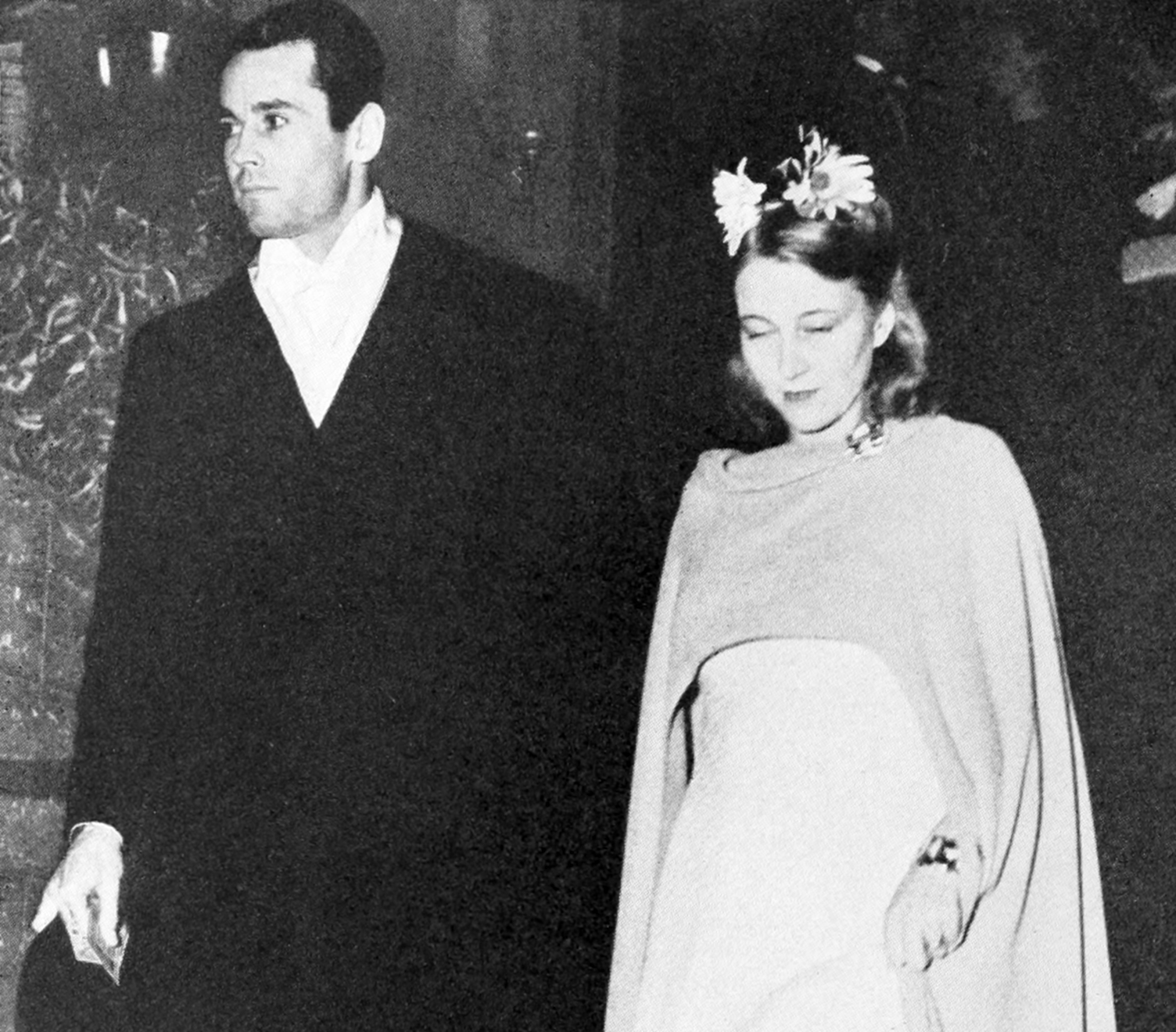 Photograph of Henry Fonda and his wife Frances Ford Seymour, part of the feature "Cal York's Gossip of Hollywood" (section subtitled "Saturday Night Out")